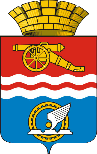 Coat of Arms of Kamensk-Uralsky District, Sverdlovsk oblast, Russia “В пересечённом червлёном (красном) и лазоревом (синем, голубом) поле поверх деления — сдвоенный серебряный заполненный червленью, волнистый пояс, сопровождаемый вверху золотой пушкой на таком же лафете, а внизу — дважды продольно разделенным кольцом, снаружи и внутри золотым, а посередине составным золотом и лазоревым, и поверх кольца — тремя серебряными соединёнными в пояс дугообразно расширяющимися книзу брусками, из которых средний окрылён полулётом того же металла; внутри кольца, справа от полулёта, положен золотой безант”